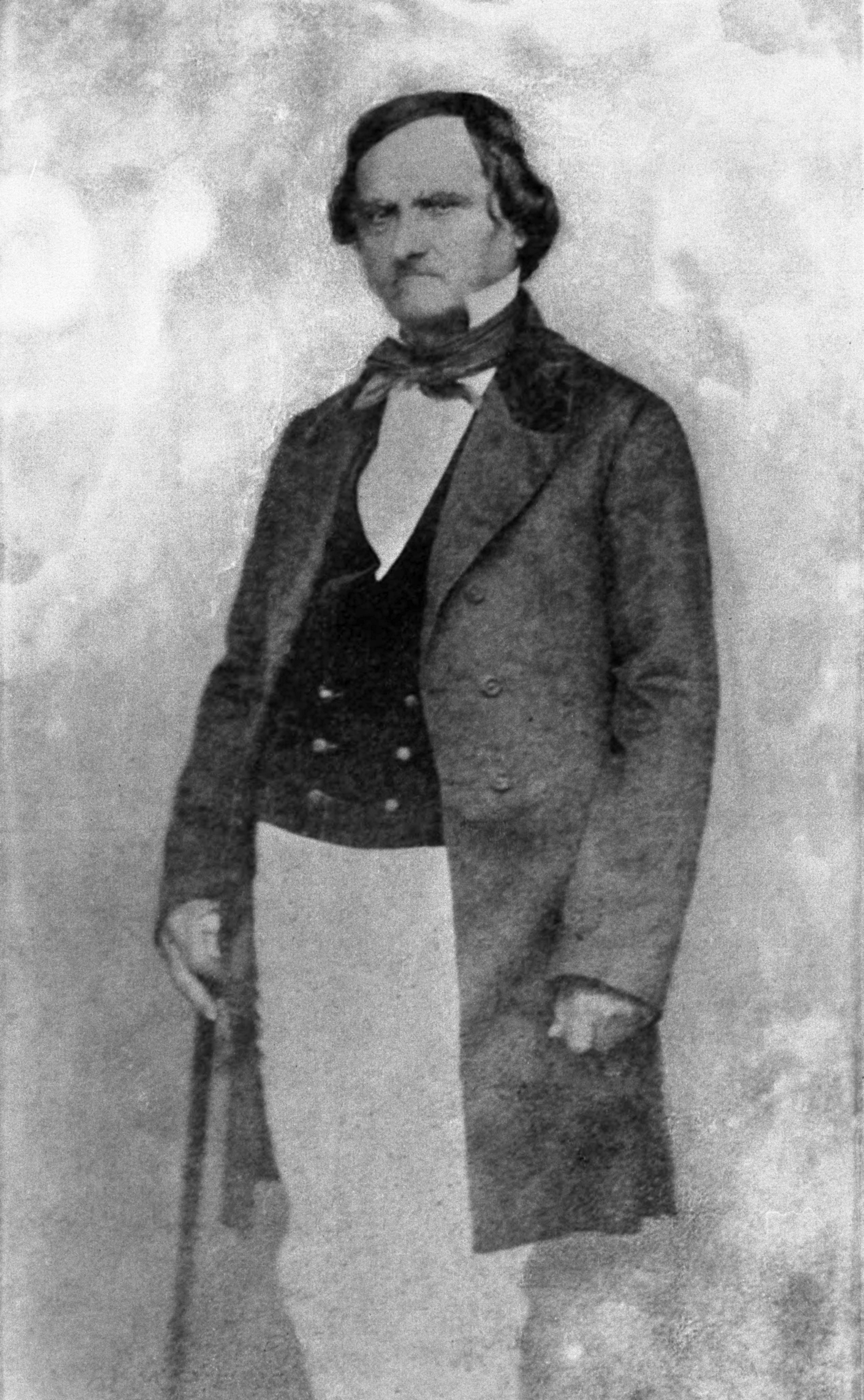 Portrait of Judge Manuel Requena, ca.1830-1880 Photographic portrait of Judge Manuel Requena, ca.1830-1880. He is visible from his lower legs to his head and is looking straight ahead while his body is turned slightly to the left. He is dressed in a three-piece suit and is wearing a cravat. Born 1802 in Yucatan, Mexico, he came to Los Angeles in 1834. He was the first county recorder and on the first board of county supervisors (1852).